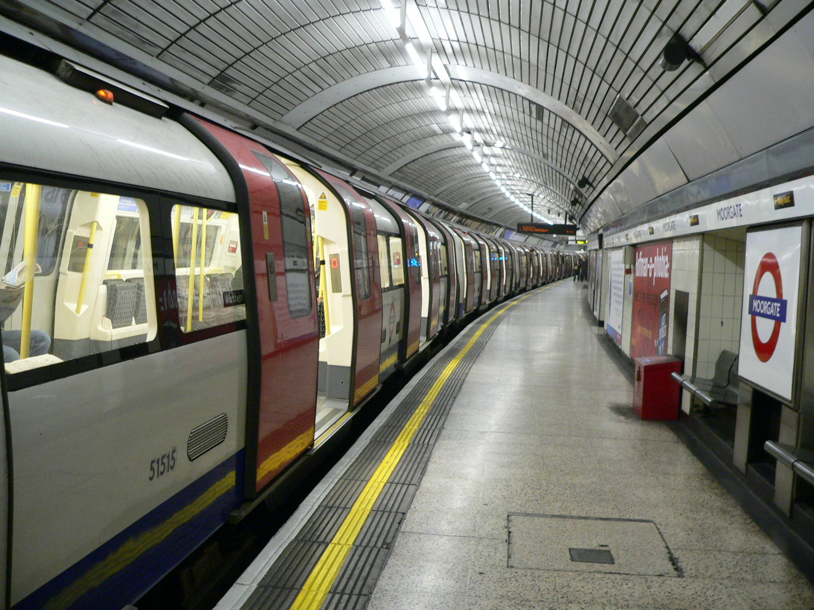 A southbound London Underground 1995 Stock train waits at Moorgate station with a Northern Line service to South Wimbledon.